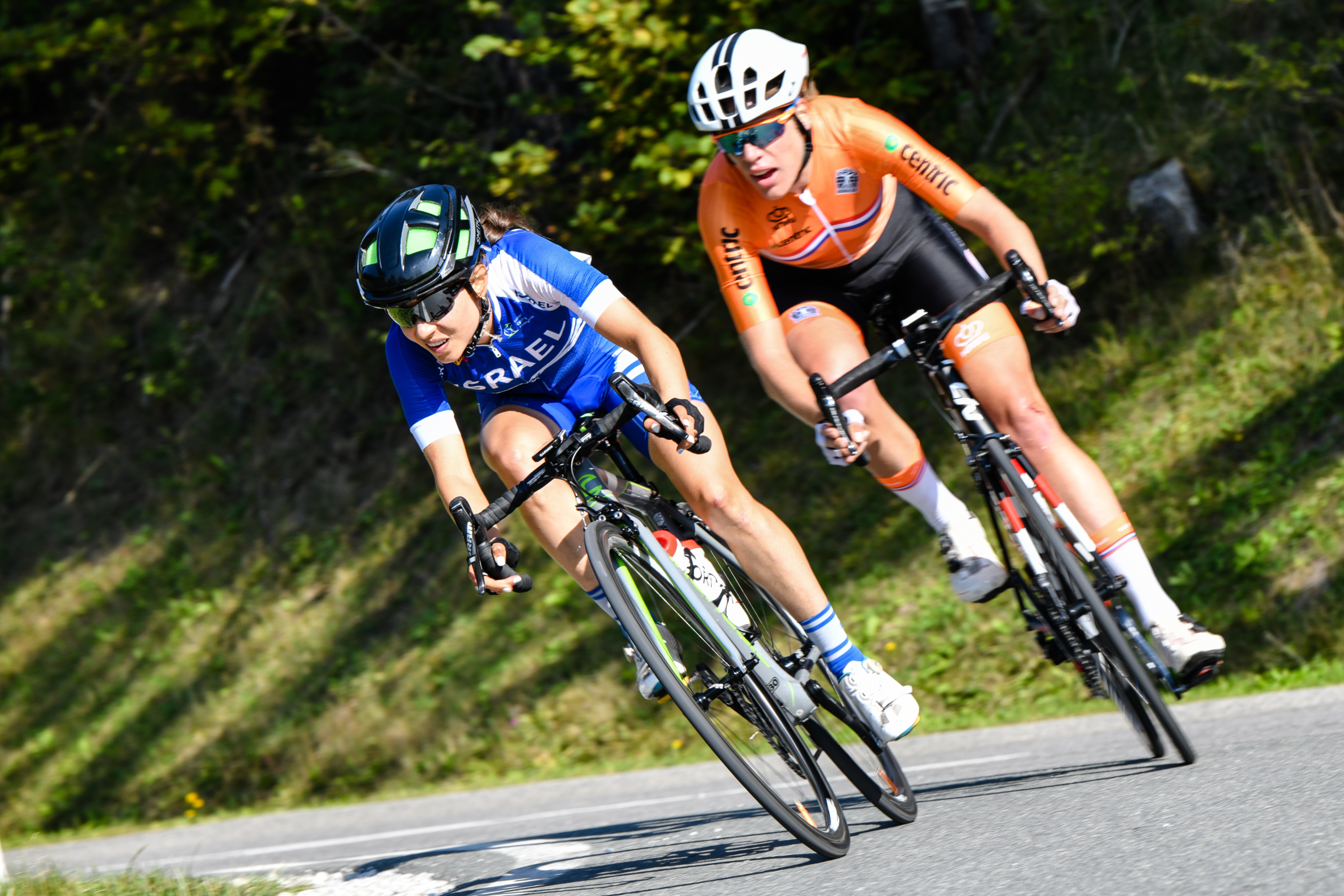 2018 UCI Road World Championships Innsbruck/Tirol Women Elite Road Race. Picture shows: Omer Shapira of Israel